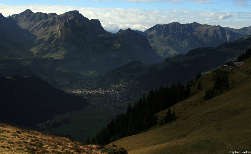 View of Engelberg, Switzerland.